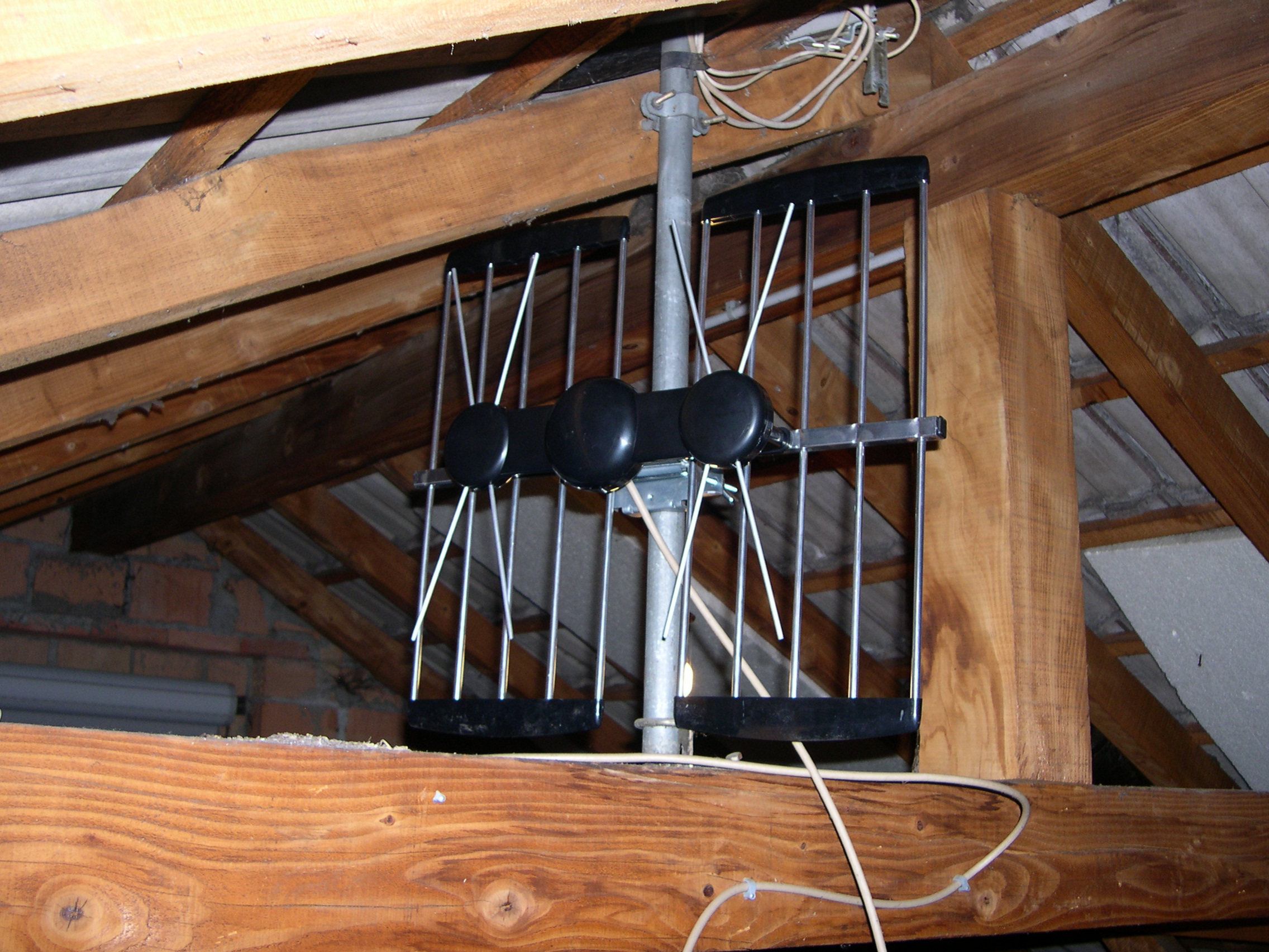 A "bow tie" UHF television antenna, mounted in attic. Also called a "grid", "panel", or "reflective array" antenna, it is widely-used for distant reception on UHF channels. This example consists of two dipole elements, each consisting of two V-shaped wires, mounted in front of a screen reflecter. The "bow-tie" dipole has a wider bandwidth than an ordinary half wave dipole, improving coverage of the wide UHF television band.